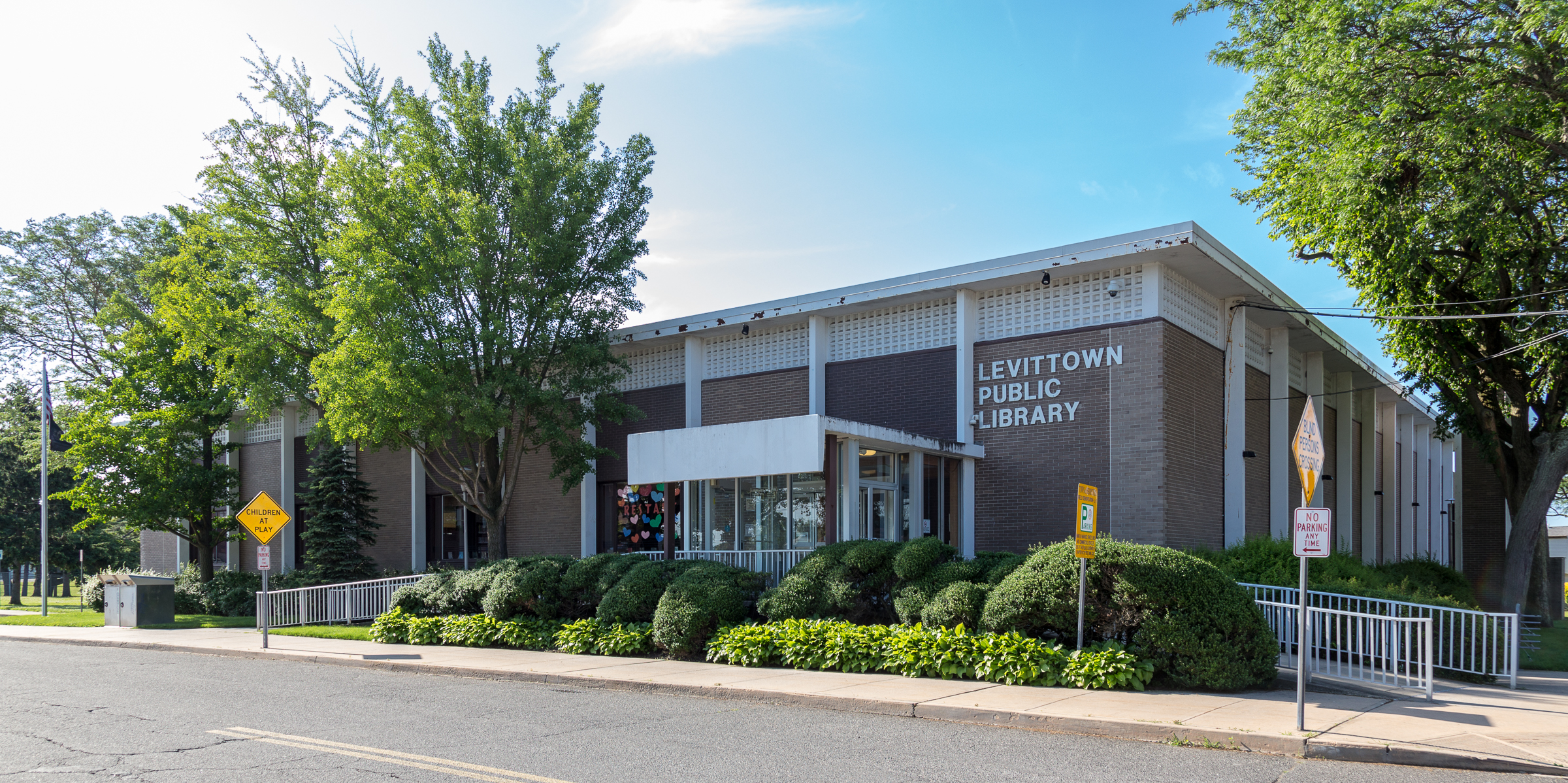 Levittown Public Library, New York